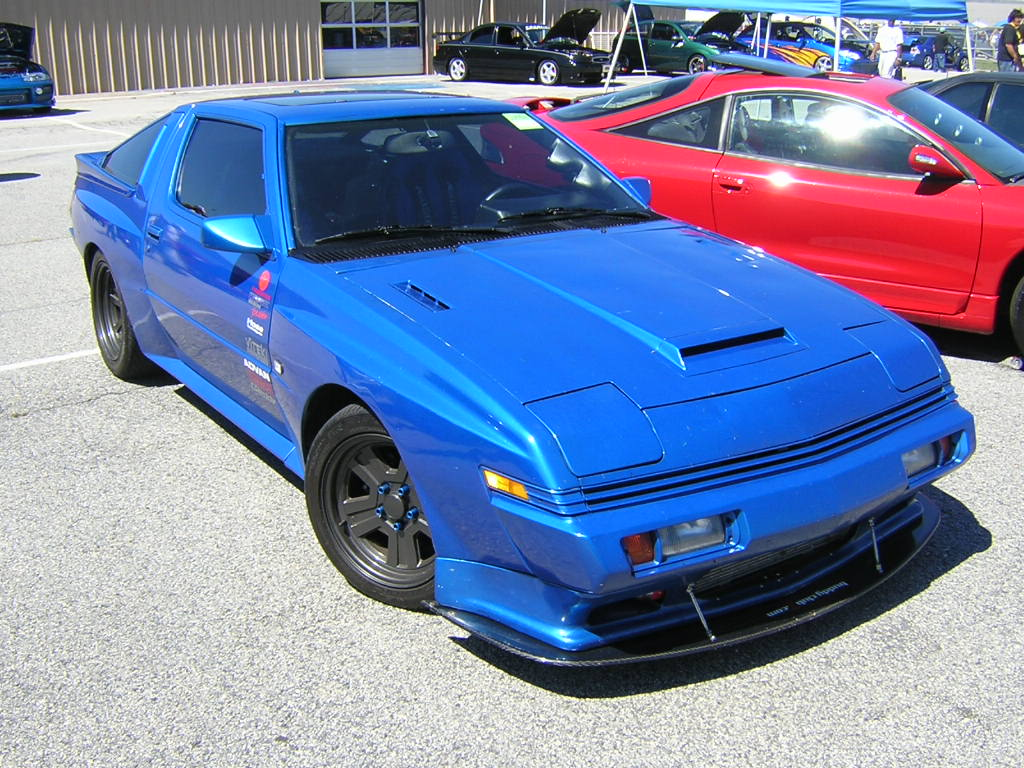 A lightly modified Mitsubishi Starion.